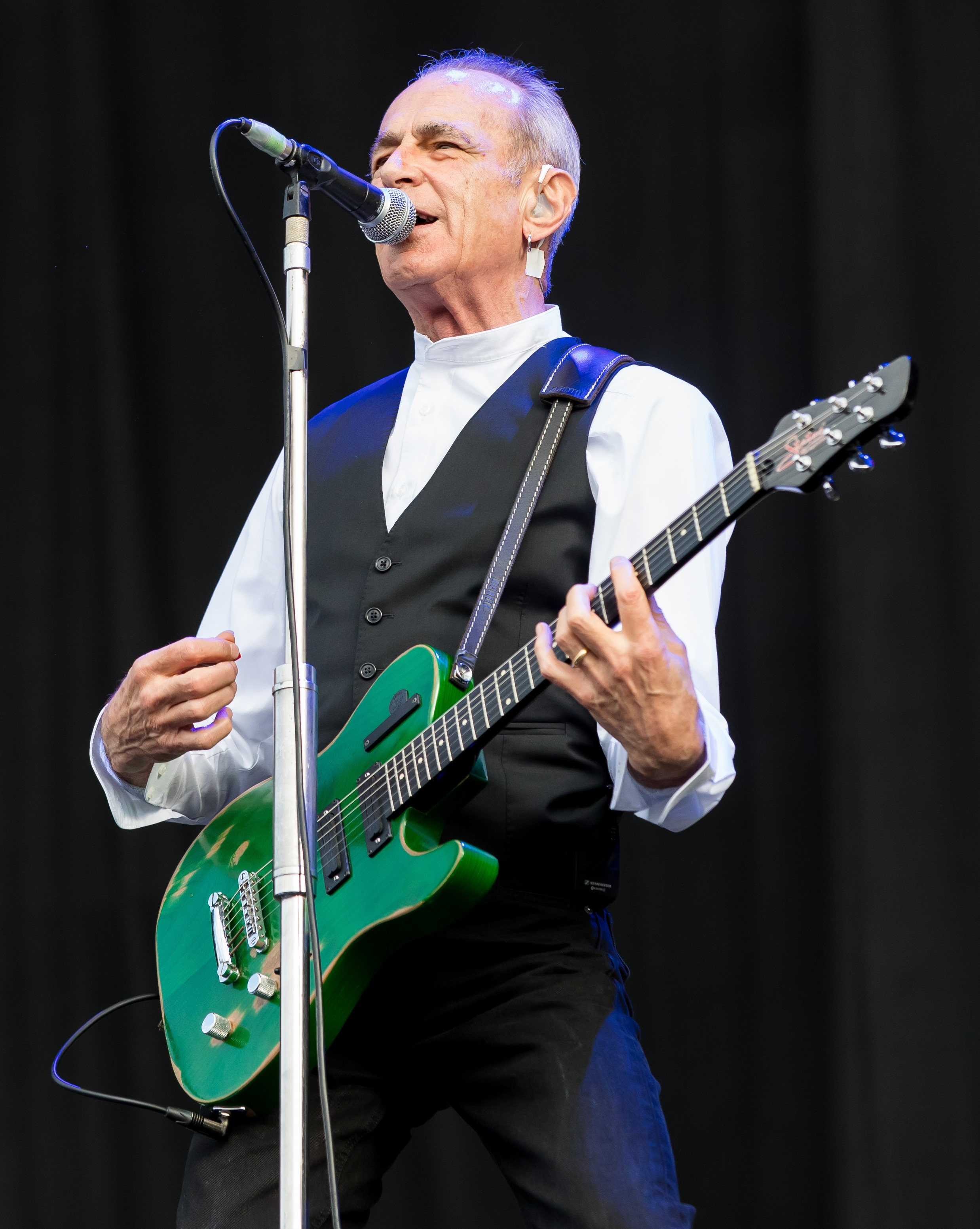 Francis Rossi performing with Status Quo (band) at Wacken Open Air, 2017